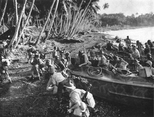 Caption: New Zealand troops from the 3rd Division land on Vella Lavella